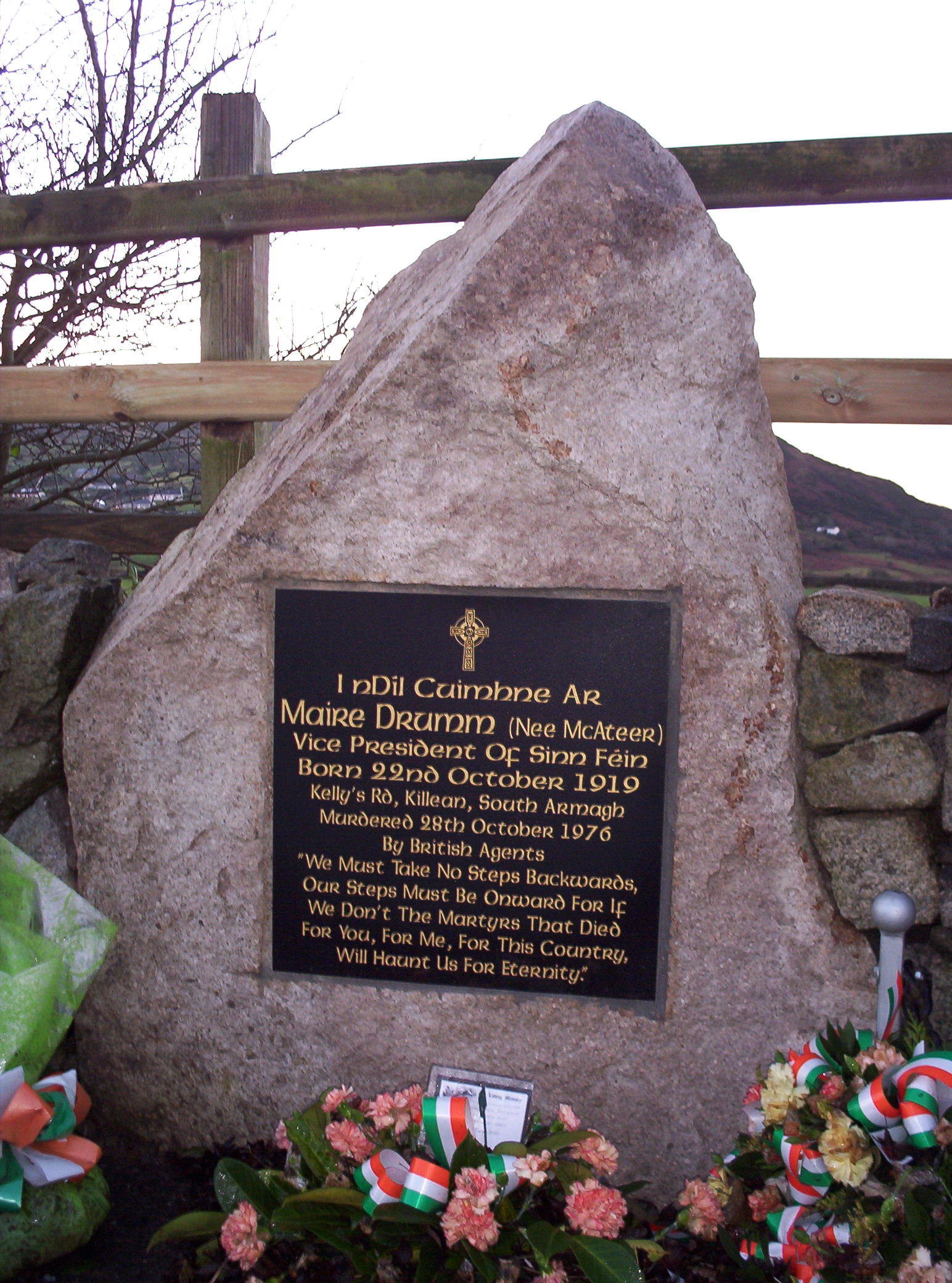 Máire Drumm's Memorial in Killean (taken 12-2006)